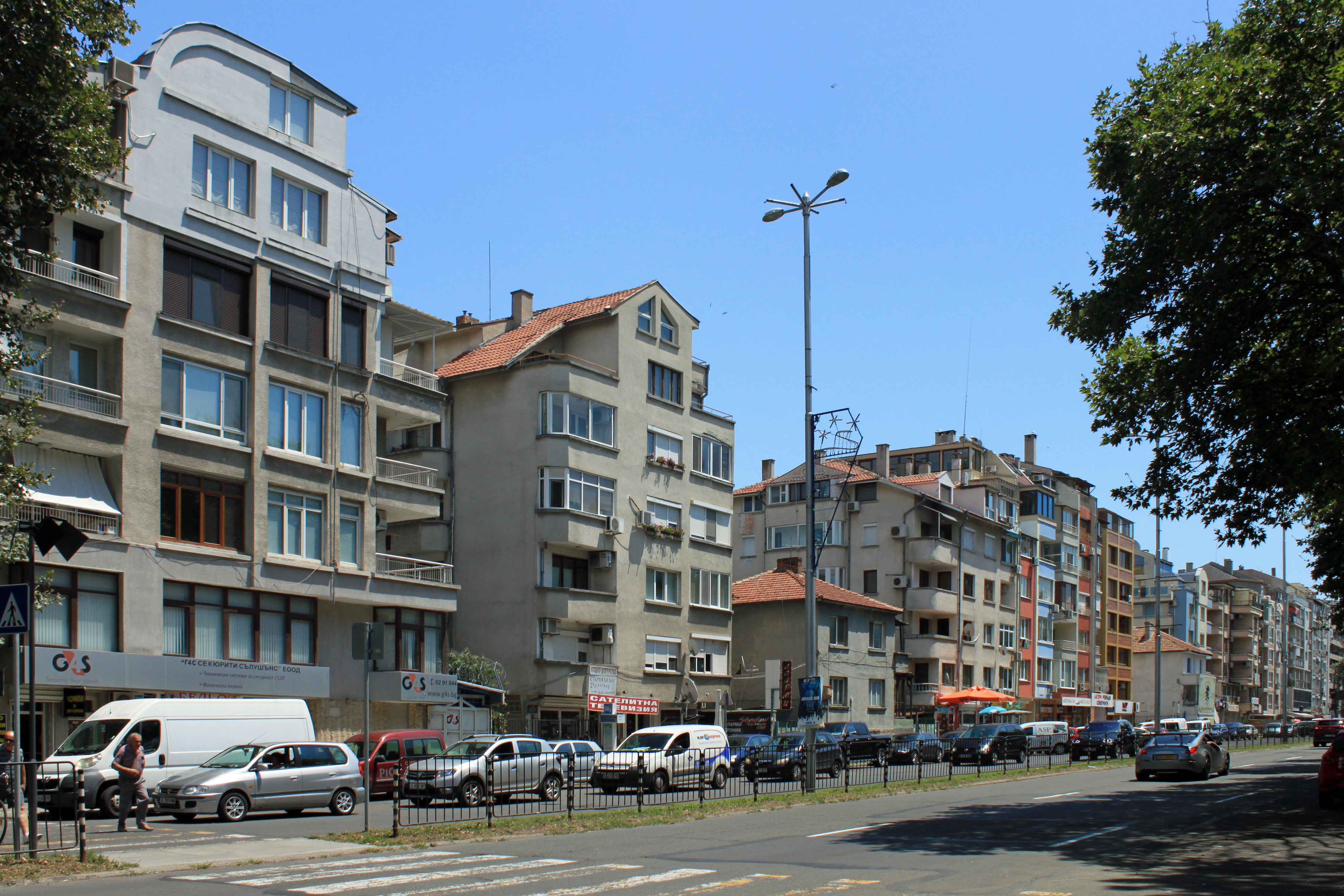 Burgas, Demokratsia boulevard